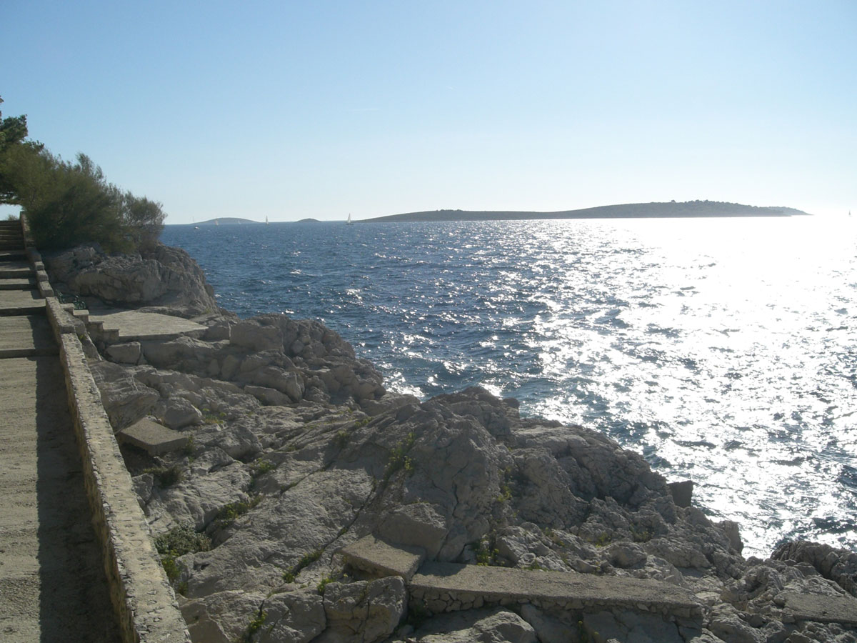 islands of Svilan, Barilac and Maslinovik, seen from Primošten, Croatia